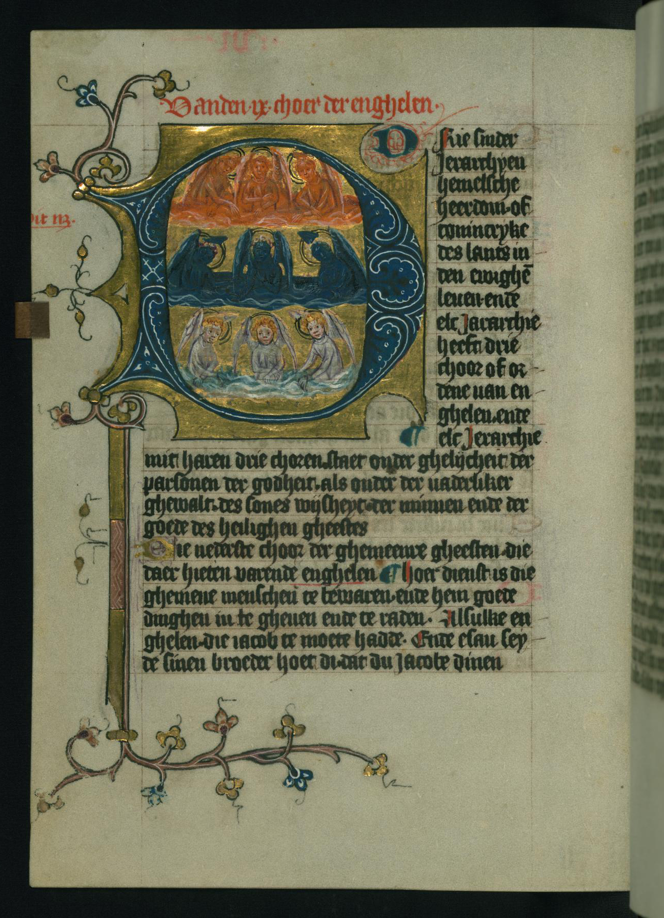 This folio from Walters manuscript W.171 depicts the nine choirs of angels.